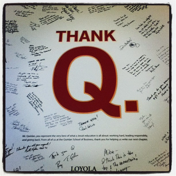 This is a photo of a card that Loyola faculty and staff wrote to Mike Quinlan, donor and namesake of Loyola's Quinlan School of Business.